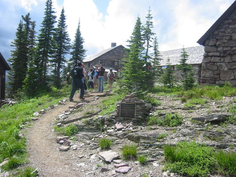 A group of hikers reaching the Granite Park Chalet at Glacier National Park. The plaque commemorates the chalet as a National Historic Landmark.